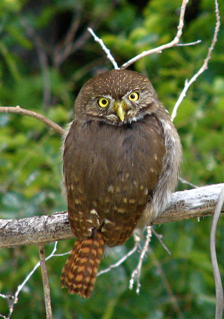 Ferruginous Pygmy-owl (Glaucidium brasilianum). Picture taken in the city of Garza García, Nuevo Leon, Mexico.